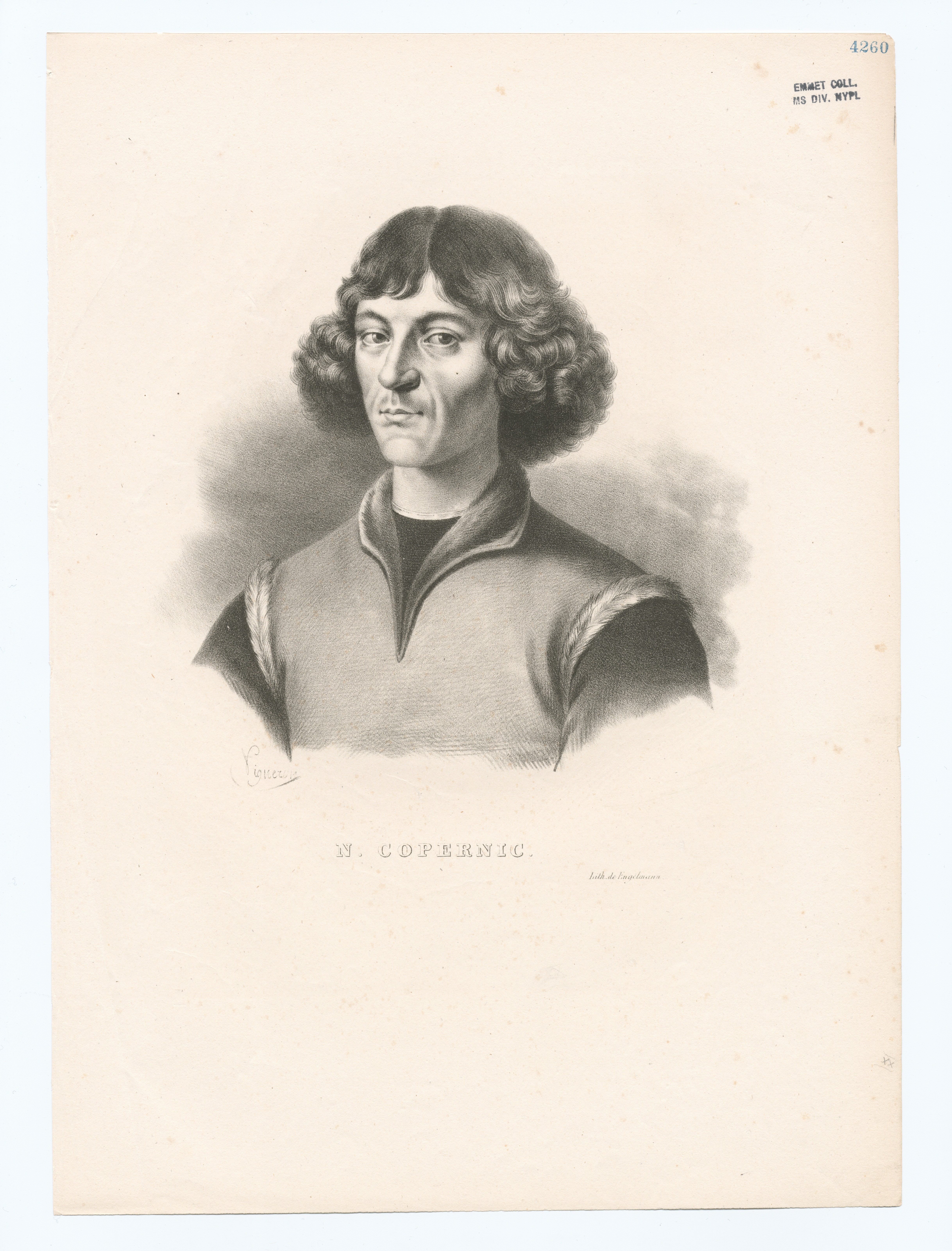 Volume numbers given here refer to the original volume numbers of the publication, not of Lossing's publication. Printmakers include Mosley I. Danforth, F. Gutekunst, Samuel Sartain, T. Sinclair. Draughtsman is David McNeely Stauffer. Title from title page of extra-illustrated volume. EM4260 Lithograph by Engelmann, possibly Godefroy Engelmann (1788-1839).